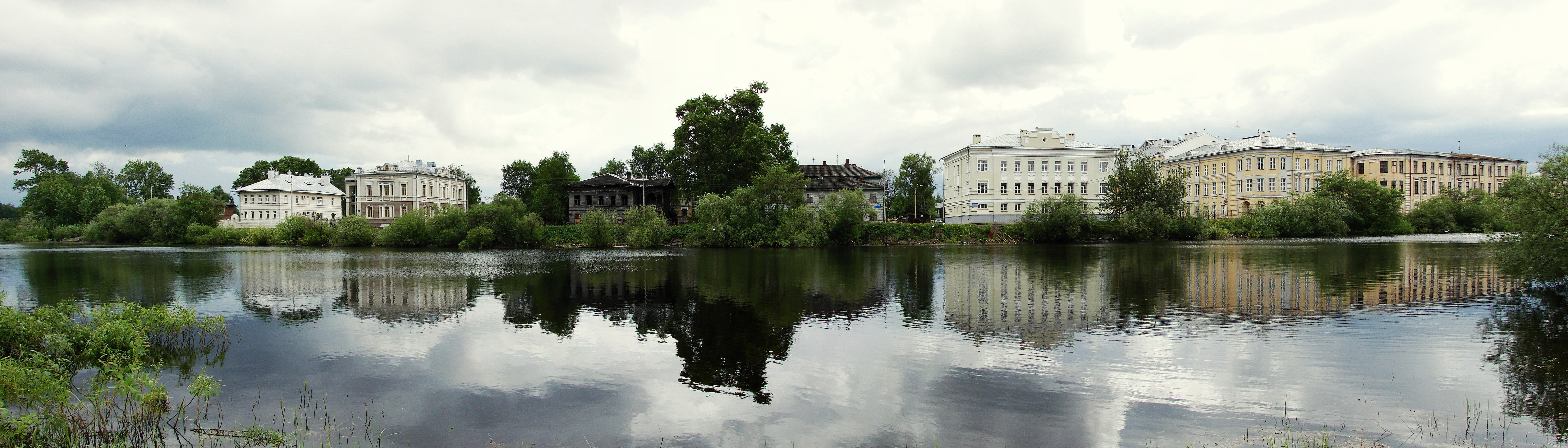 Russia, Vologda, Panoramic view